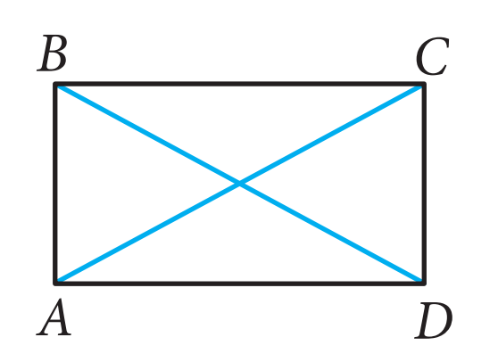 parallelogram type